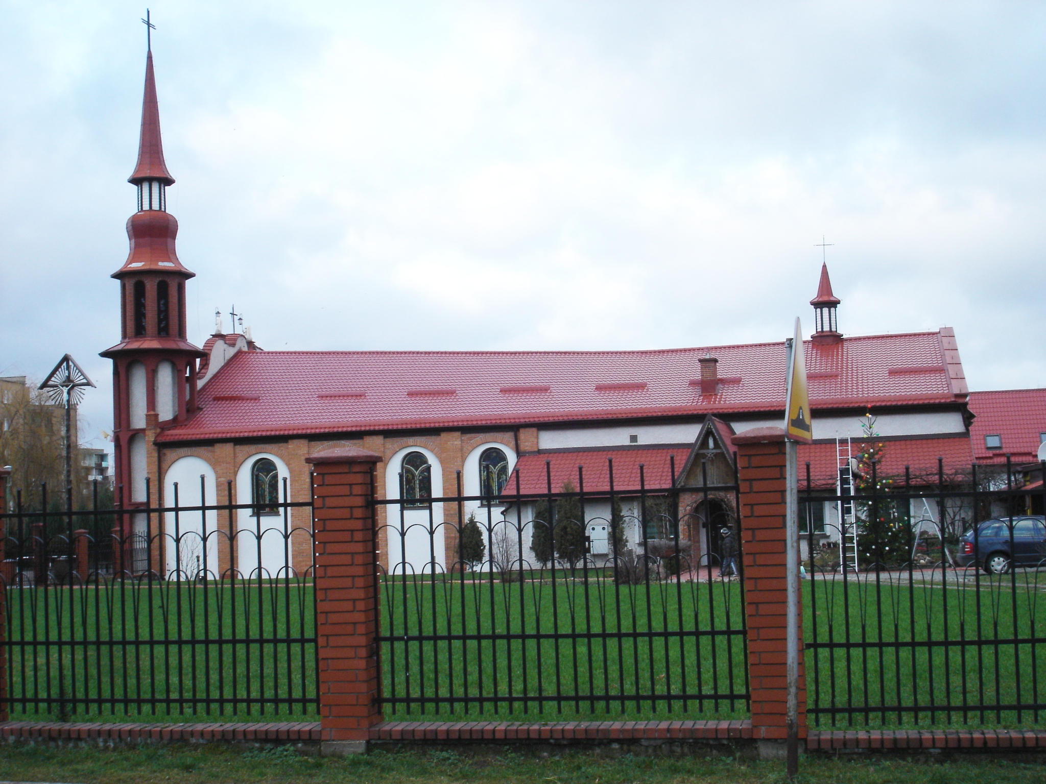 NMP Królowej Apostołów church in Elk, Poland